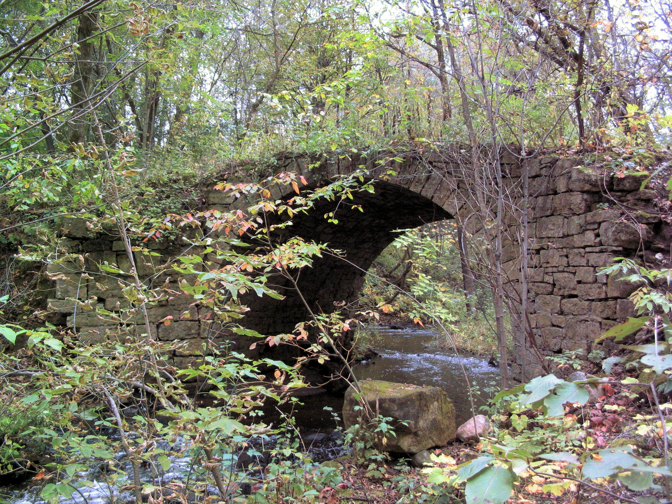 Point Douglas-St. Louis River Road Bridge in Stillwater, Minnesota, listed on the National Register of Historic Places. Bridge crosses over Brown's Creek.